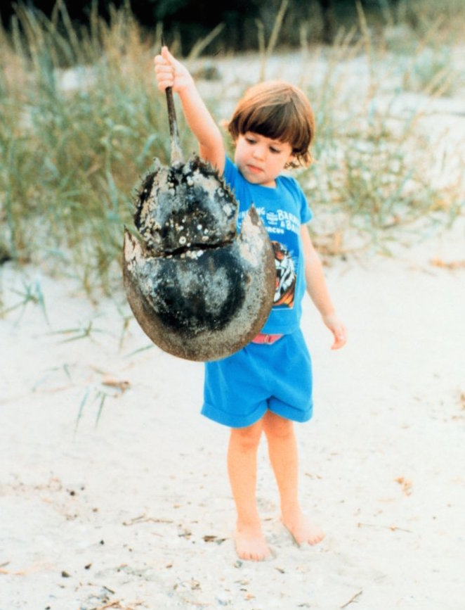 Young naturalist inspecting a horseshoe crab shell. The carapace was empty. If this was a live animal, picking up by tail could cause injury to the crab.